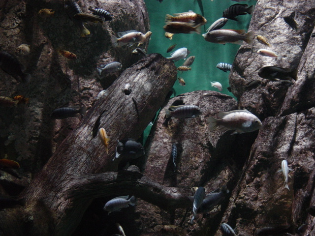 A sampling of aquarium fish from Lake Malawi, in Africa